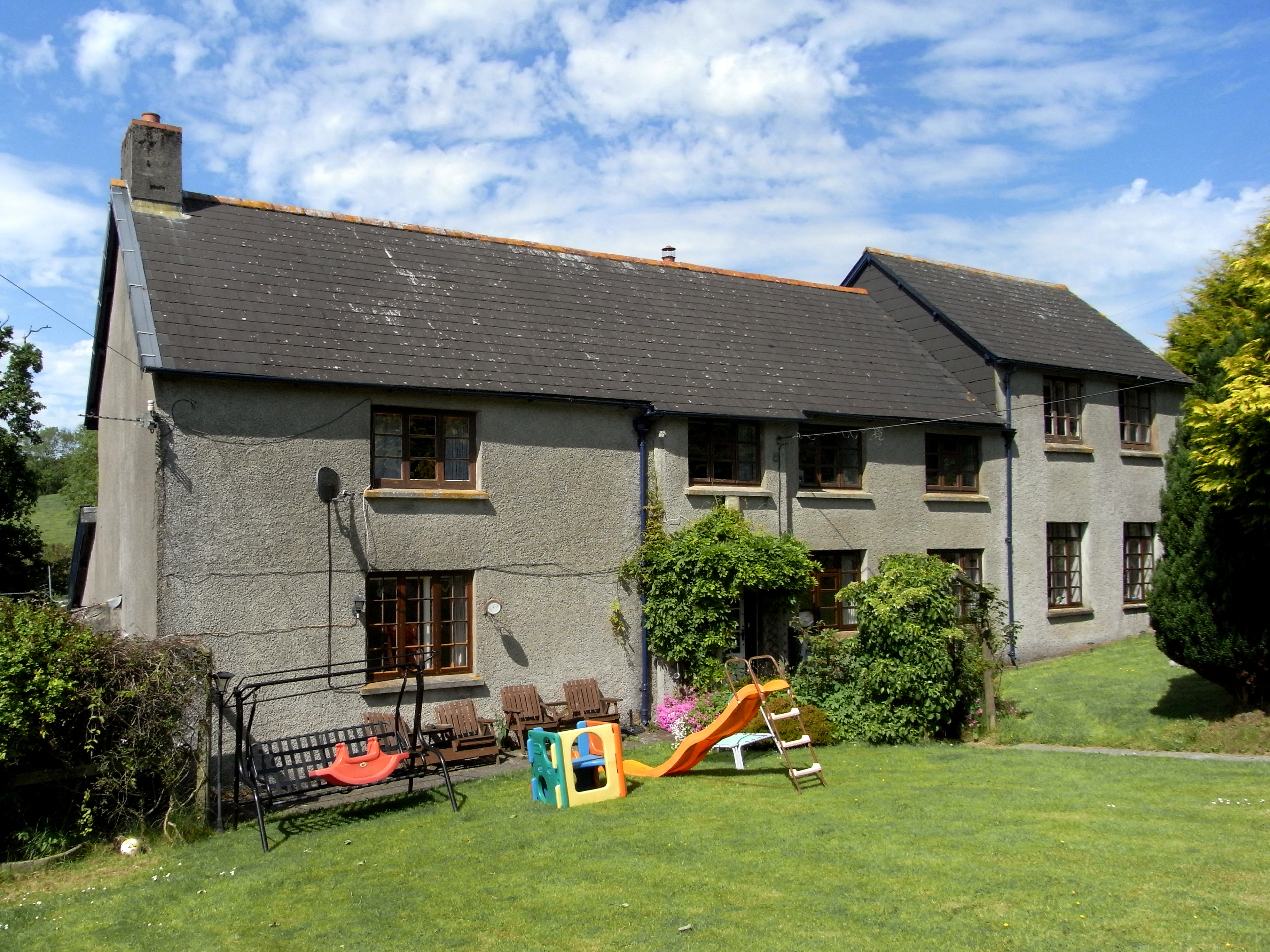 Townhouse Barton, South Molton, Devon, birthplace of Hugh Squier (1625-1710), benefactor of South Molton. Situated about 1 3/4 miles west of the centre of the town of South Molton, on the road to Chittlehampton. In 2015 the property of the Countess of Arran's Castle Hill estate, Filleigh. The textured concrete rendering and concrete window cills hide a former Devon "mansion" of considerable age containing a fine 17th century decorative plasterwork ceiling in the ground-floor room of the east annex at right